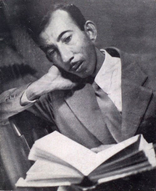 picture of Bader Shaker al-Sayyab